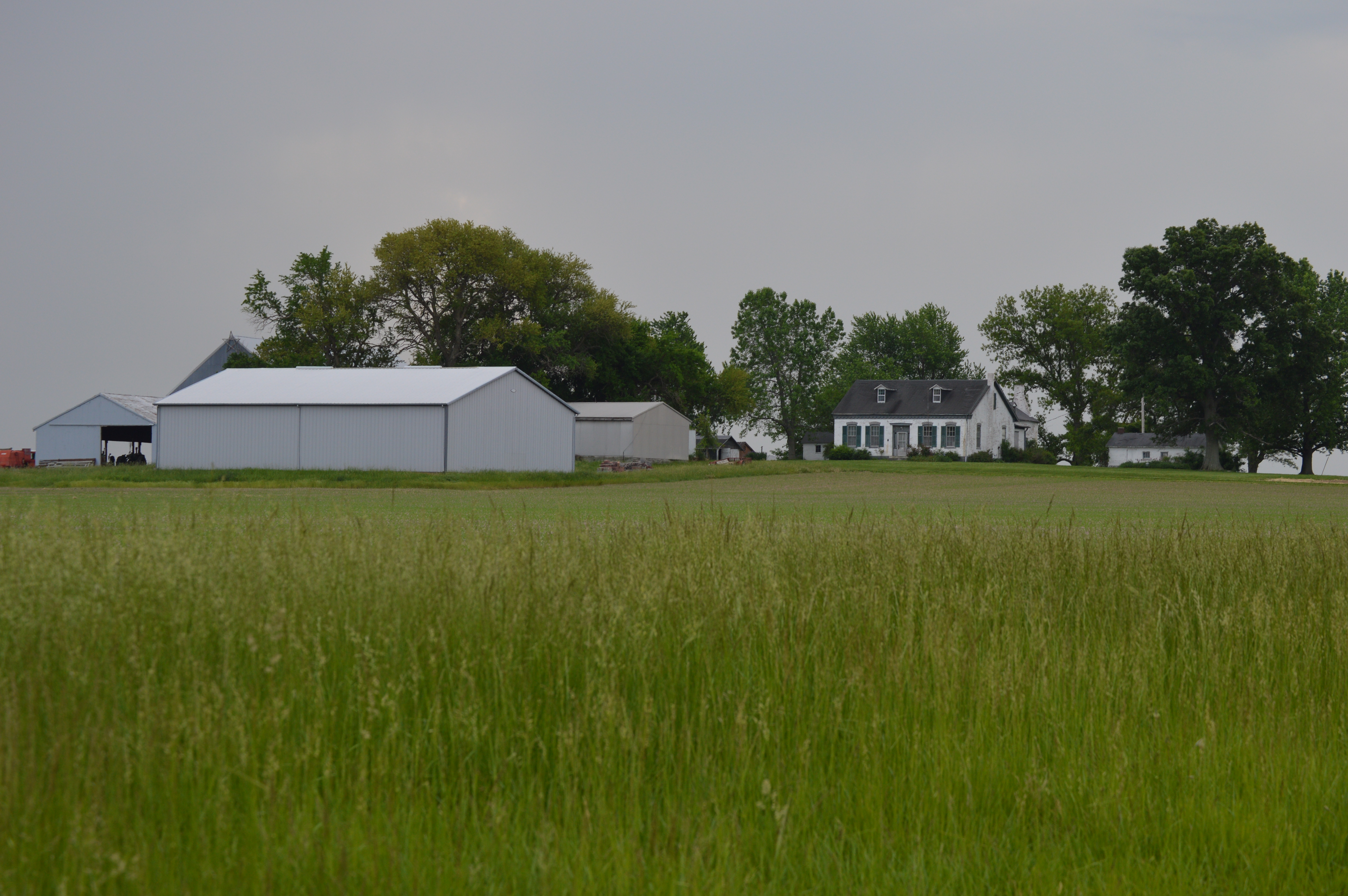 Overview from the north of the Knobeloch-Seibert Farm, located on the eastern side of Schneider Road west of Mascoutah in Shiloh Valley Township, St. Clair County, Illinois, United States. The farmstead, including the 1861 farmhouse, is listed on the National Register of Historic Places.